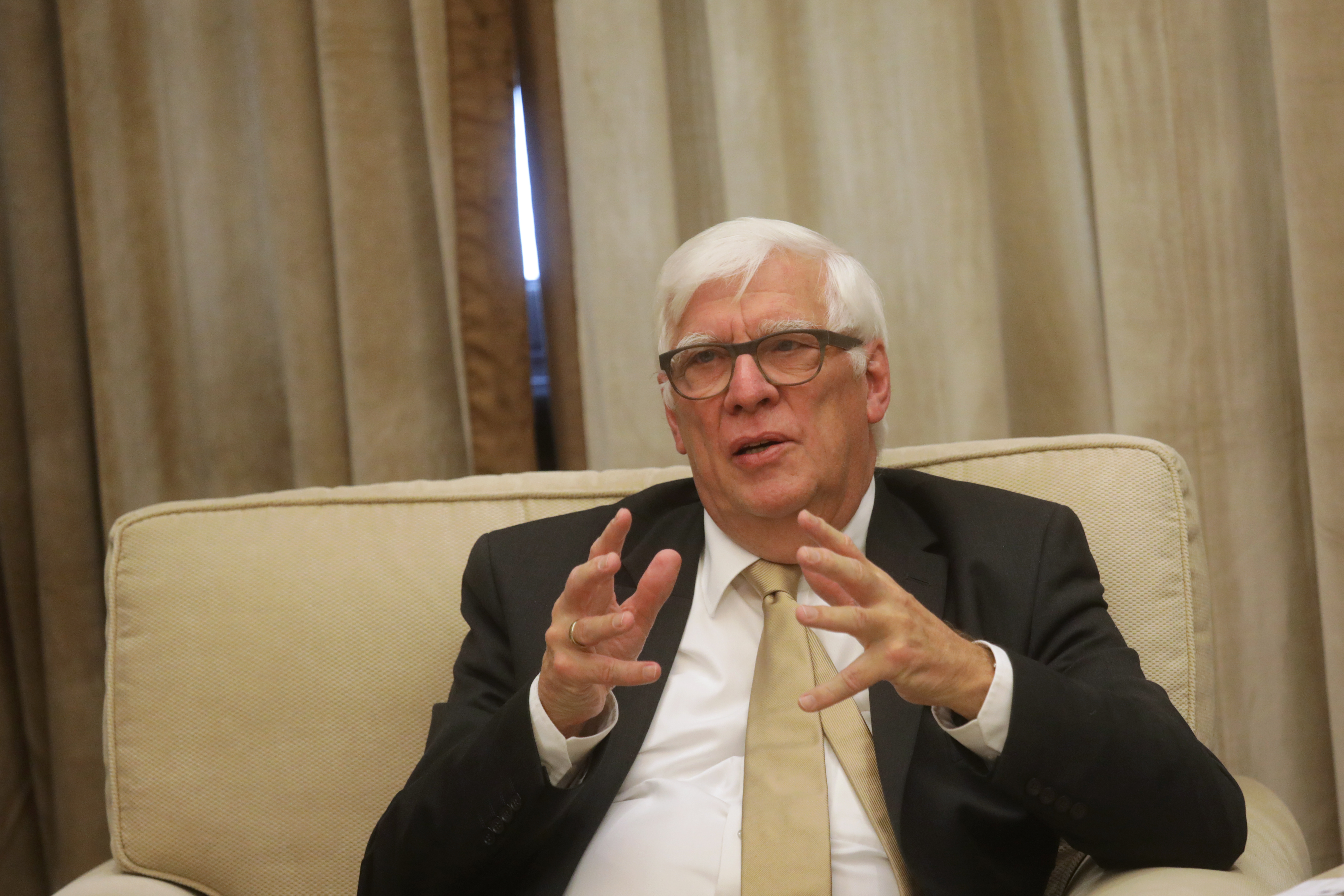 1.29 歐洲議會106年「歐中關係報告」報告人貝柏士議員，與副總統相互交流 授權方式及範圍：中華民國總統府│政府網站資料開放宣告 Authorization Method & Scope: Office of the President, Republic of China (Taiwan) / Government Website Open Information Announcement